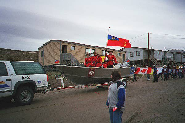 Mounties in Iqaluit on Canada Day, 1999.